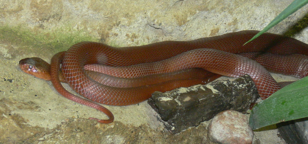 Naja mossambica pallida taken at the Tierpark Berlin, Germany